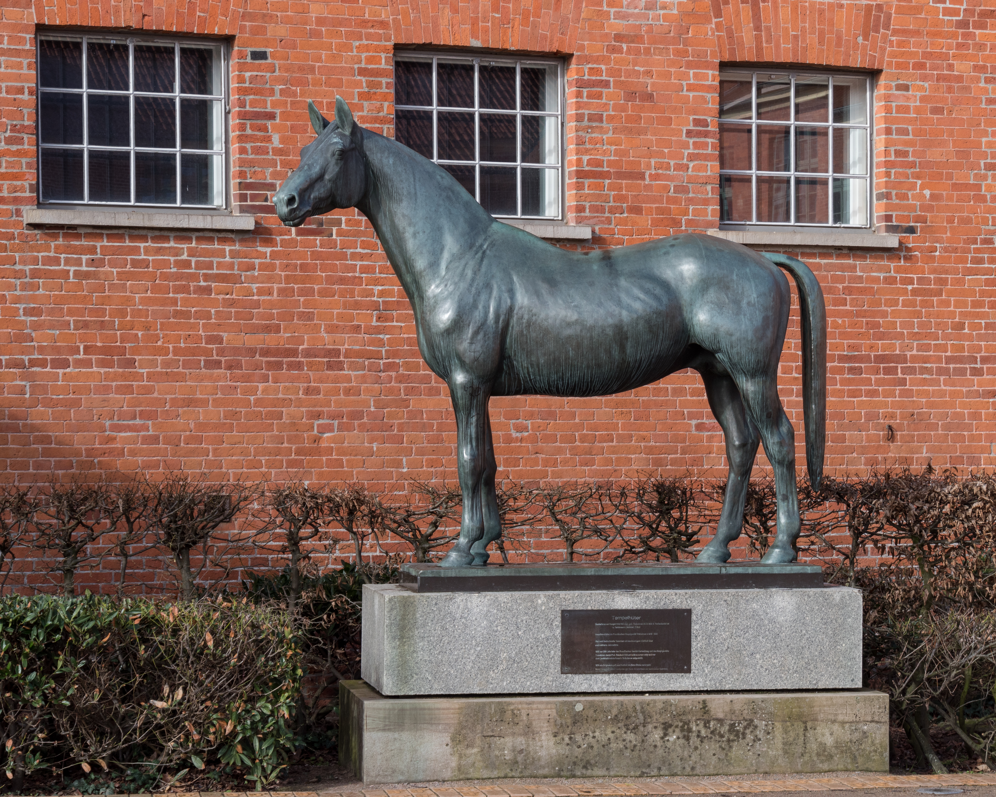 Statue of the famous Trakehner stallion "Tempelhüter" in front of the German horse museum in Verden/Aller